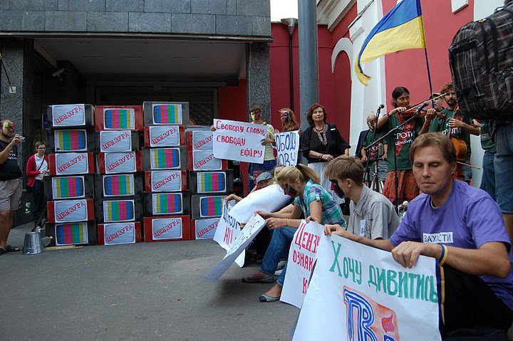 Demonstration by Ukrainian nonviolent social movement Vidsich.